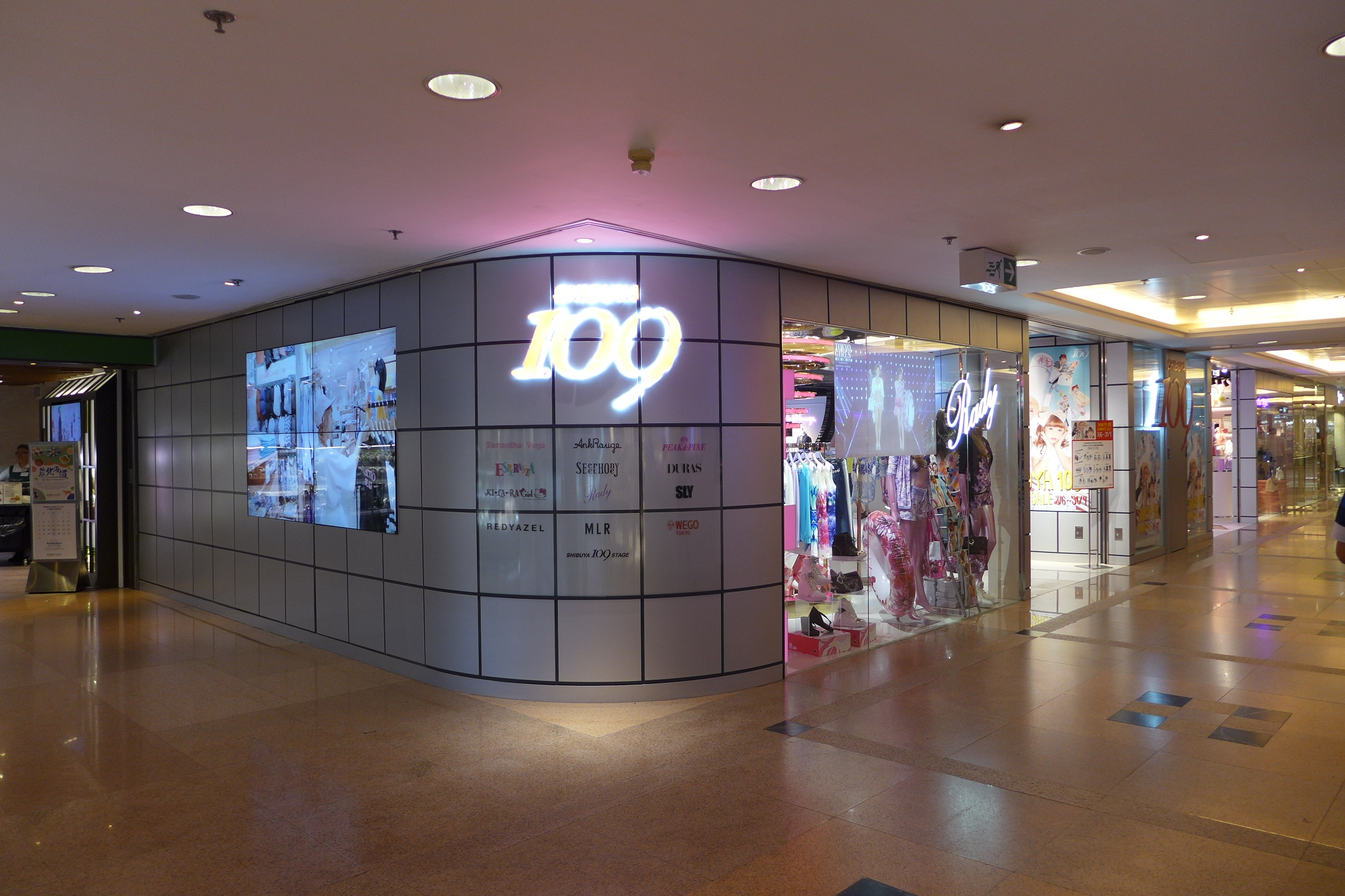 Shibuya 109 in Harbour City